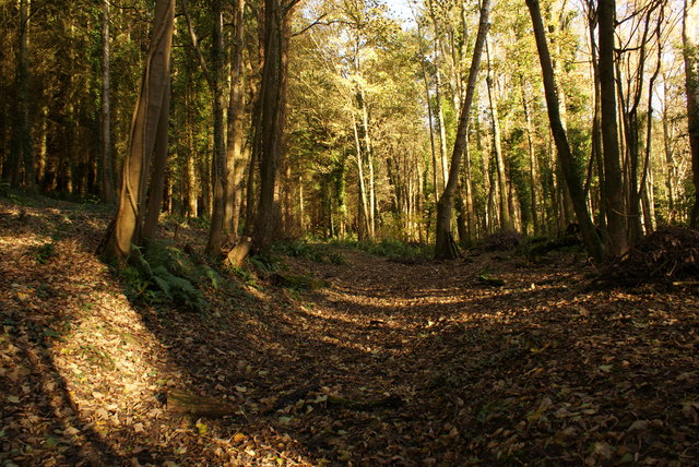 Norton Covert The Liberty Trail rises steeply up through Norton Covert.